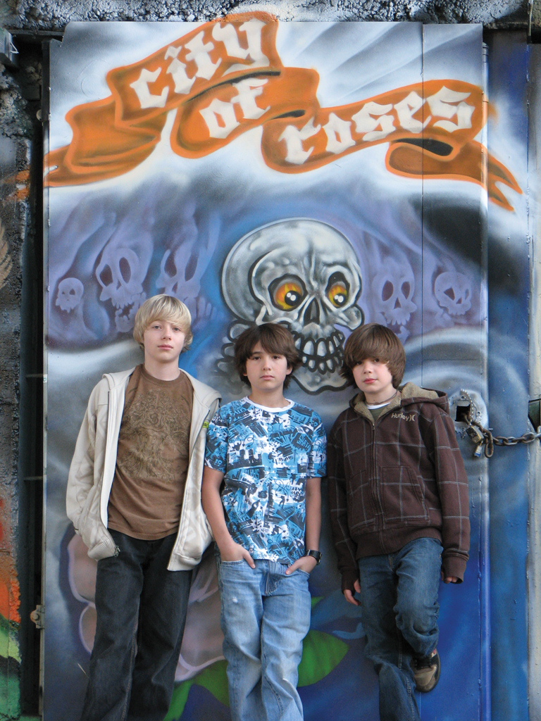 Promotional photograph of Portland Kid Band Still Pending shot in November of 2008 for release of new CD, Graffiti.